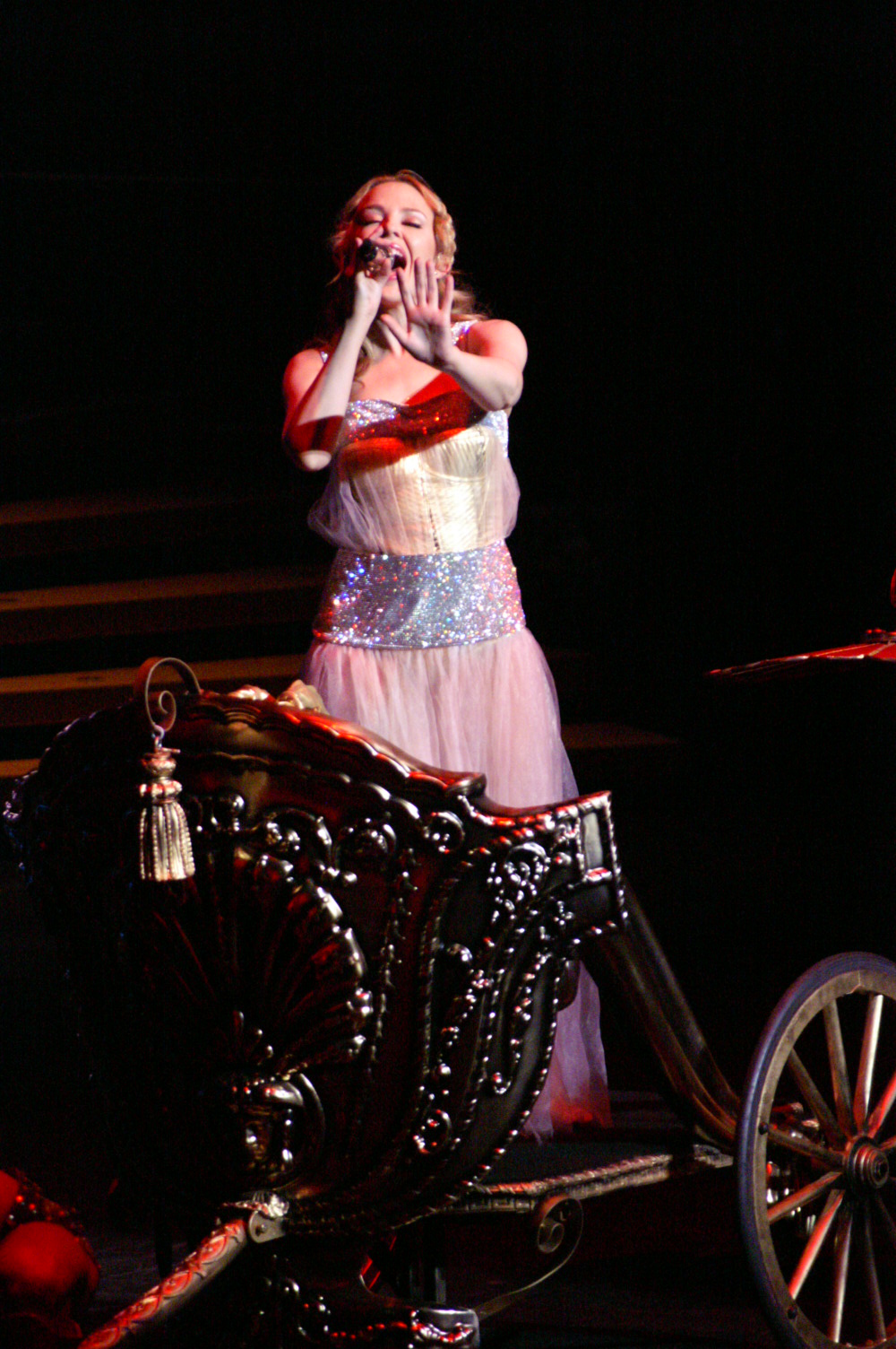 Kylie Minogue, Live Bell Center, Aphrodite Live Tour, Montreal, 28 April 2011 (26)